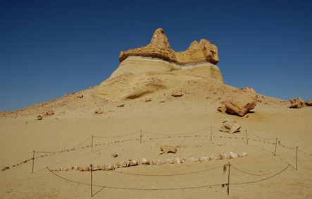 The Wadi al-Hitan fossil site